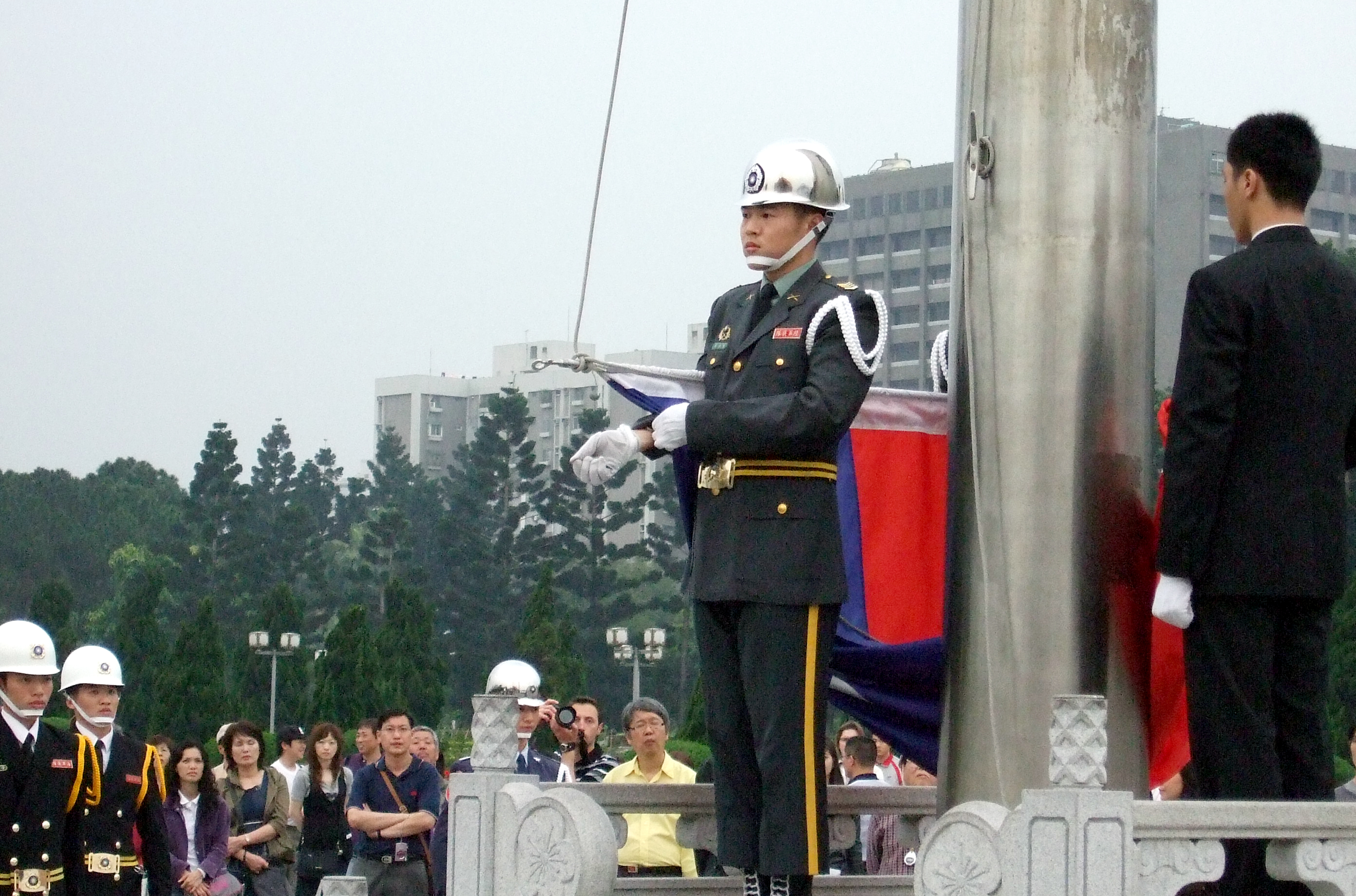 Honor Guard of the Republic of China Armed Forces lowering of the flag of the Republic of China at the end of the day at Chiang Kai-shek Memorial Hall.